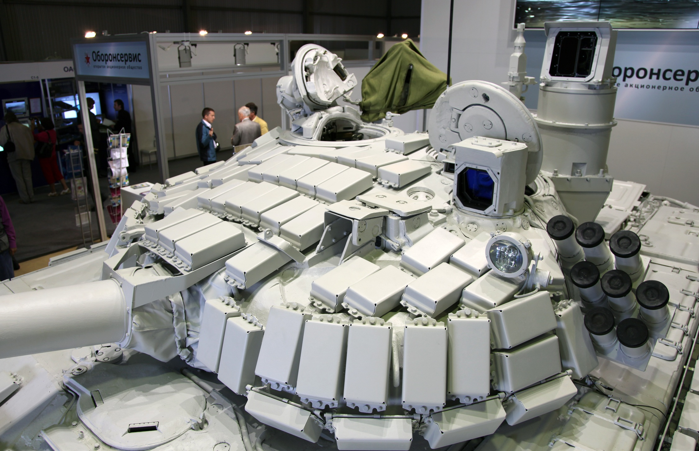 T-72B1MS White Eagle at International Forum Engineering Technologies 2012